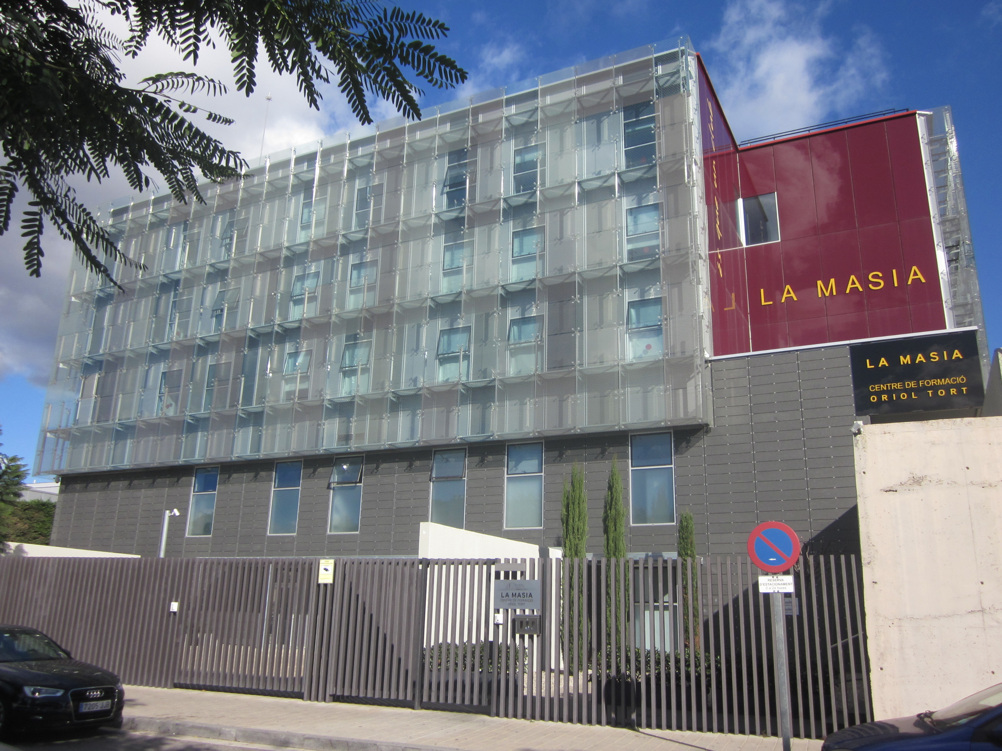 La Masia - Centre de Formació Oriol Tort at the Ciutat Esportiva Joan Gamper